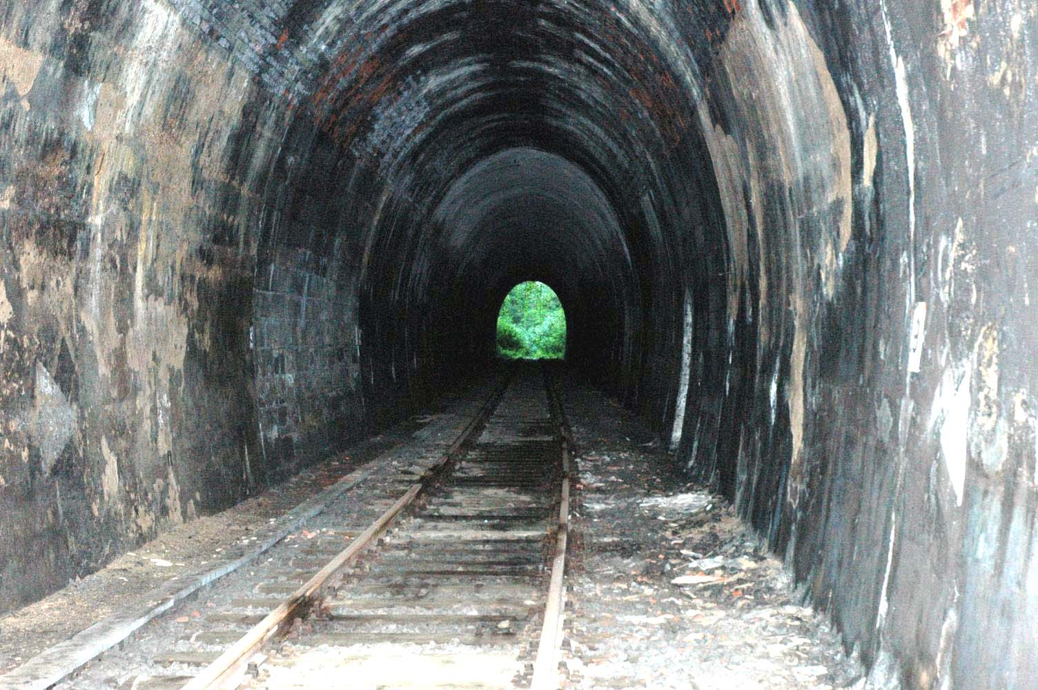 view out of the Lerchenberg tunnel of the Bottwarbahn in Heilbronn, easter ndirection.